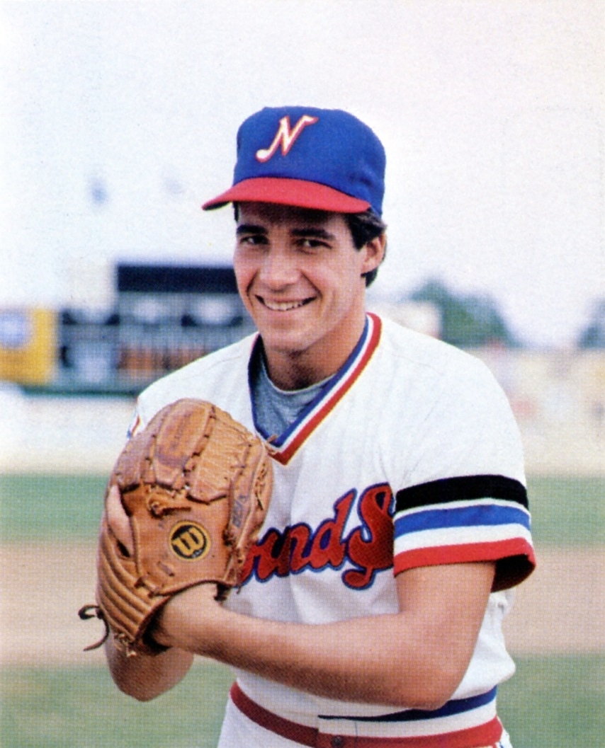 Pitcher Paul Boris of the 1980 Nashville Sounds Minor League Baseball team of the Southern League